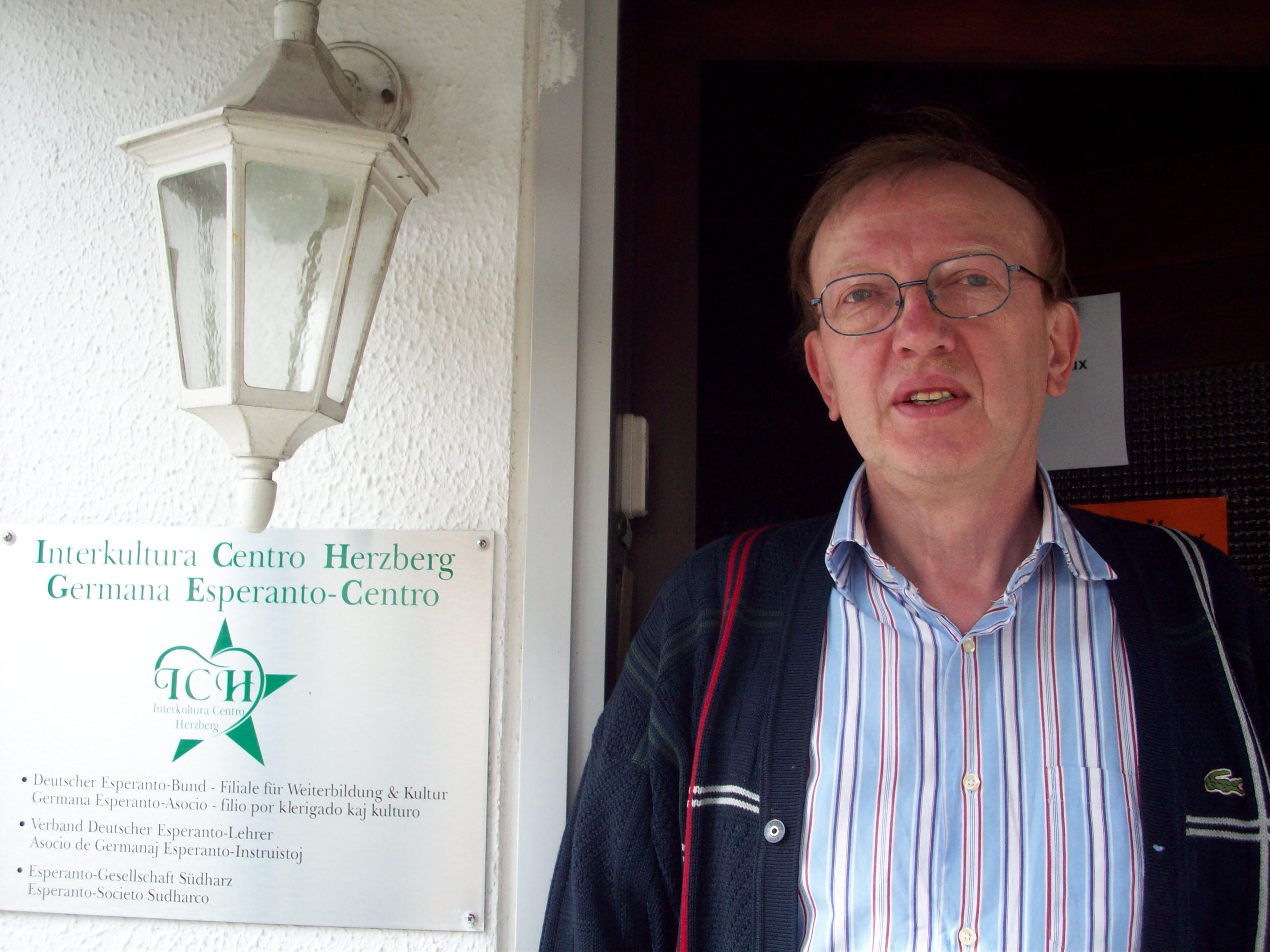 Peter Zilvar, German Esperanto activist